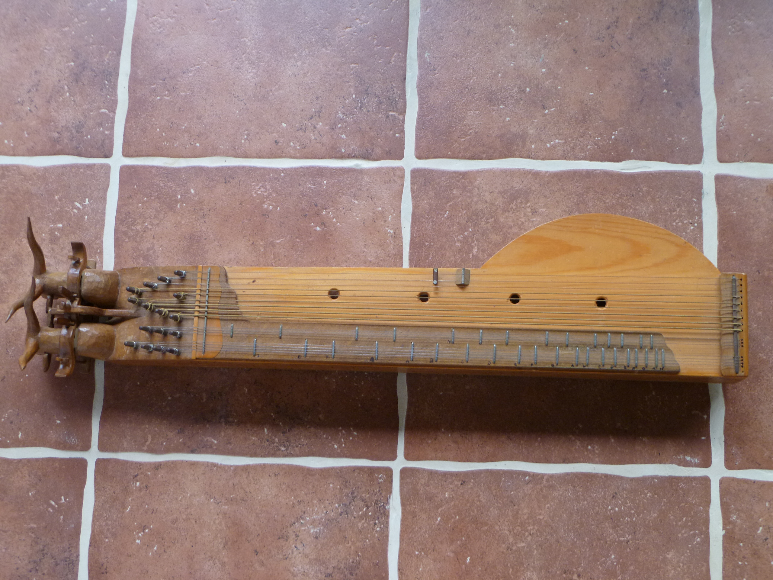 Scherrzither (a type of droned zither)